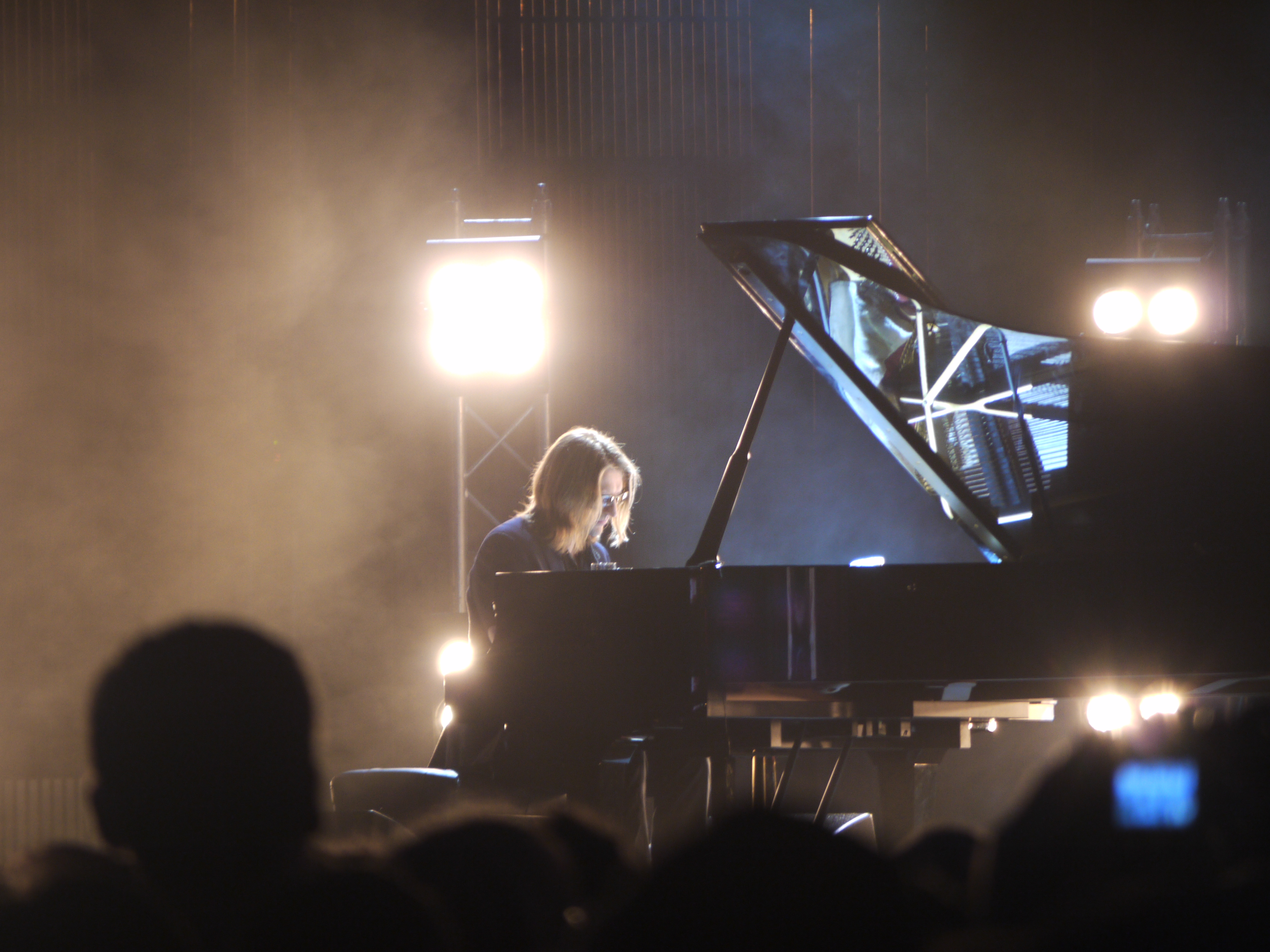 Możdżer - warming up while playing Chopin.